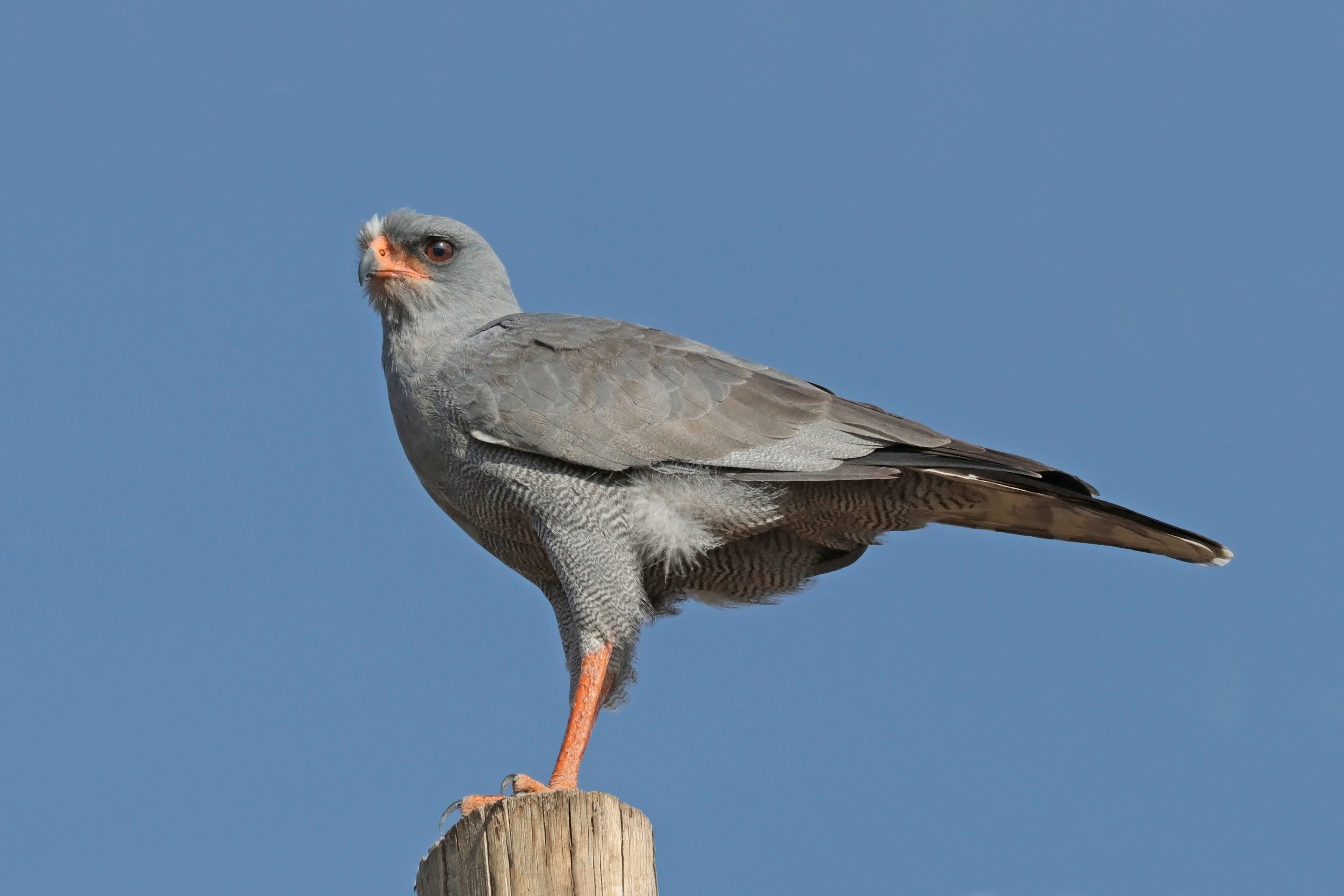 Eastern chanting goshawk (Melierax poliopterus), Awash National Park, Ethiopia